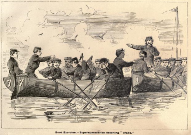 Cartoon of naval cadets tangled up while trying to row. Besides the caption in the picture, a verse on the opposite page read: "The oars were silver, Which, to the tune of flutes, kept stroke, and made the water, which they beat, to follow faster, as amorous of their strokes"